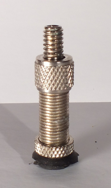 Dunlop type valve stem